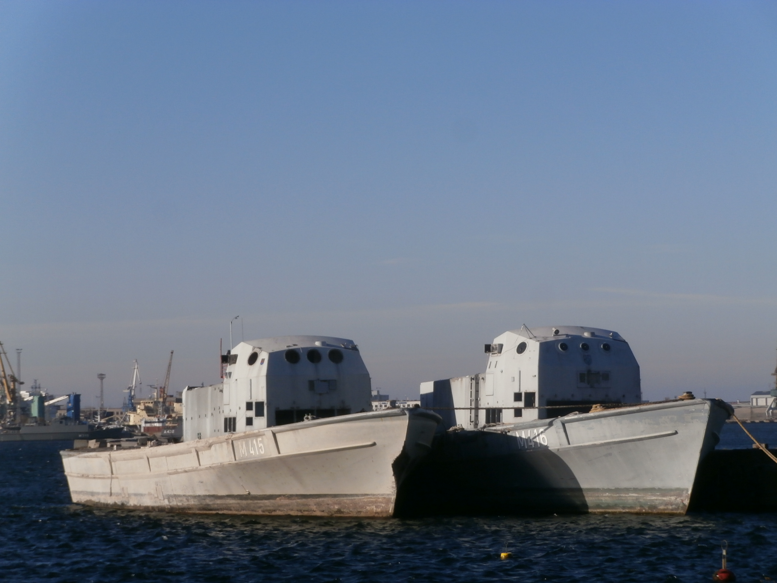 M415 Olev and M416 Vaindlo in Lennusadam Tallinn 29 October 2014